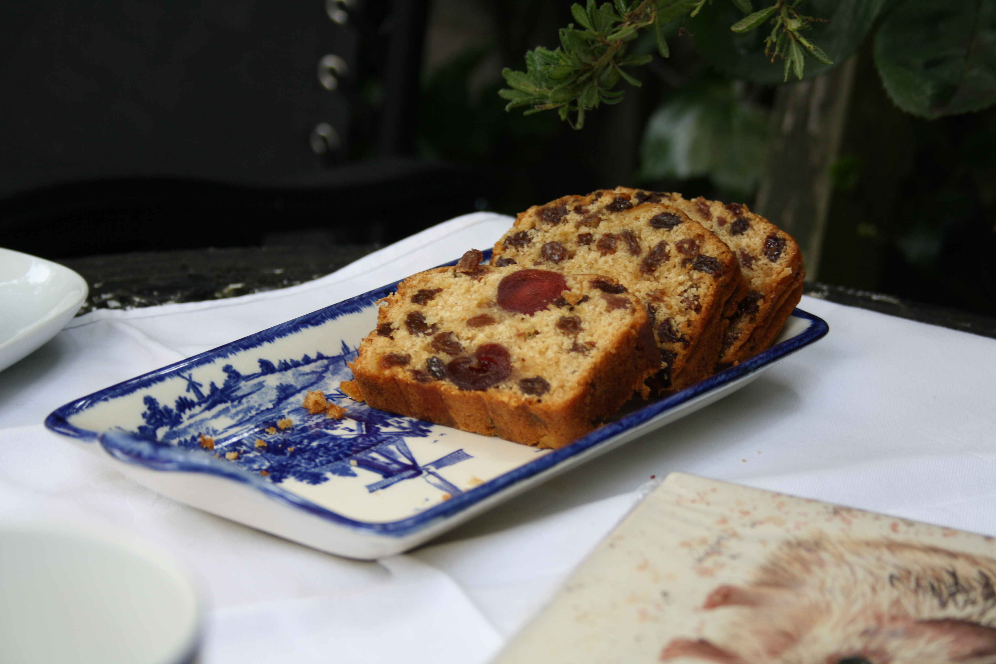 Sliced English Fruitcake, the inside of the cake shows the red cherries, sultanas and other dried fruit often inside a cake of this variety.